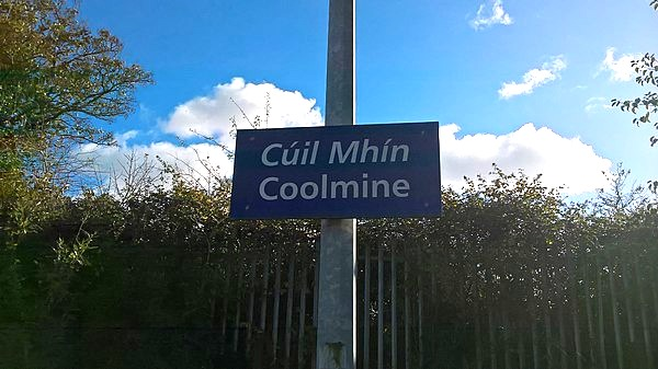 Bilingual Irish/English sign at Coolmine Train Station, Carpenterstown Road, Dublin 15 (2018).